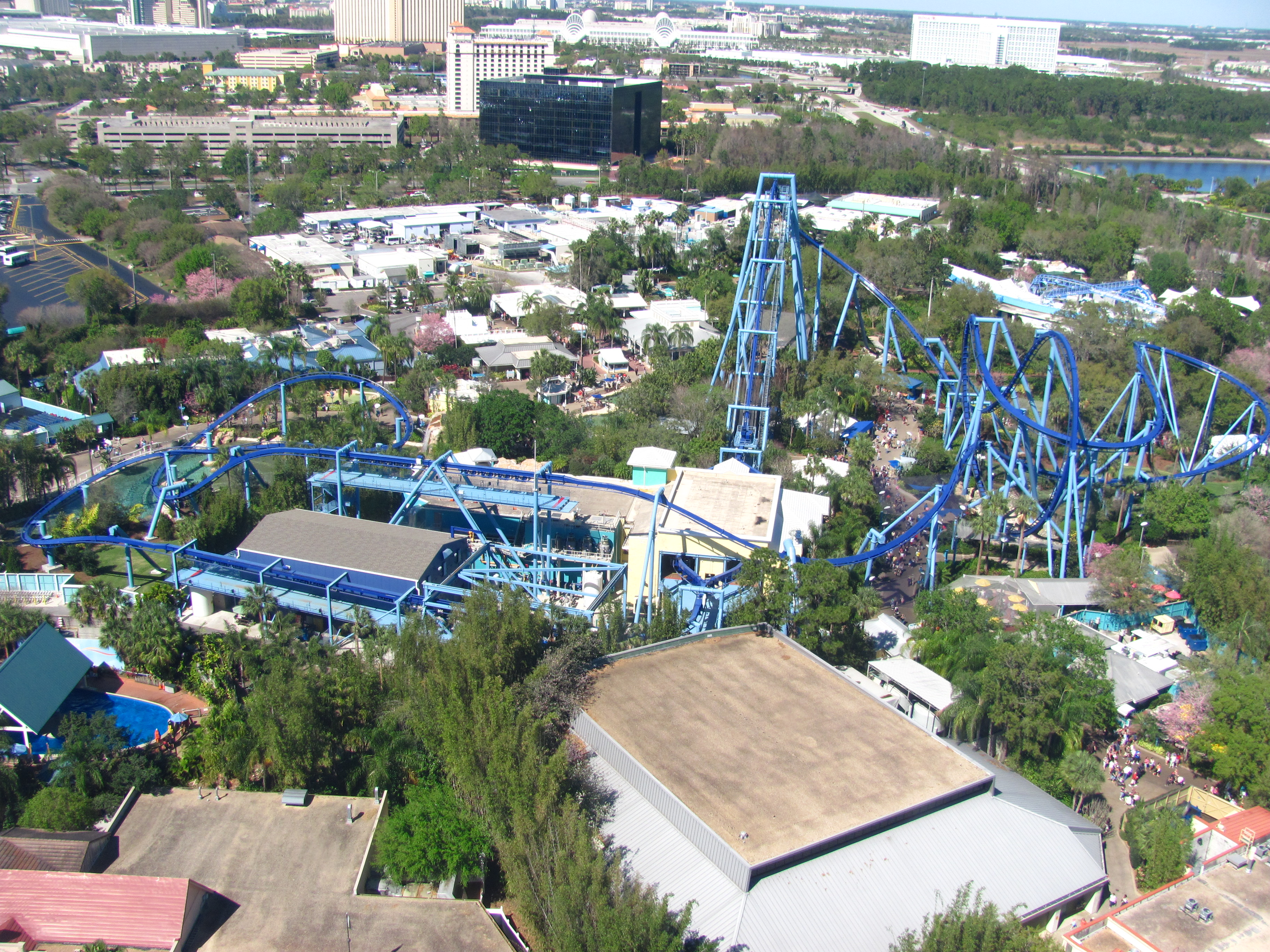 Taken from the Sky Tower